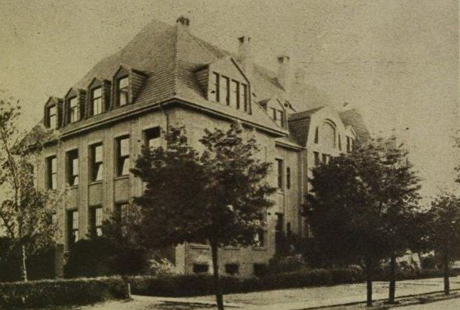 Internat of The Aid Society for polish children and youth from margin regions in Bydgoszcz (Poland), before 1921 AD